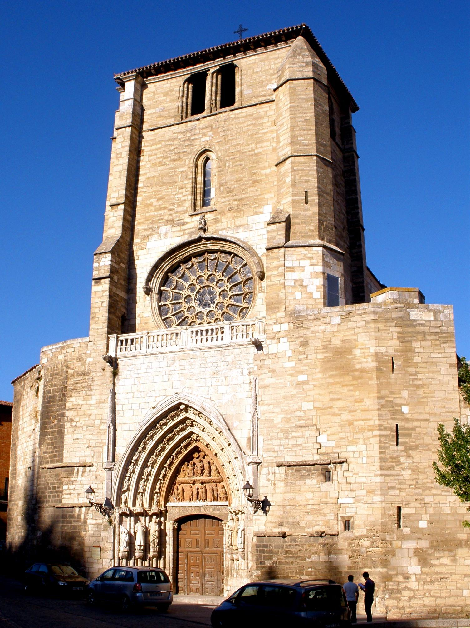 Iglesia de San Esteban y Museo del Retablo, Burgos (España)